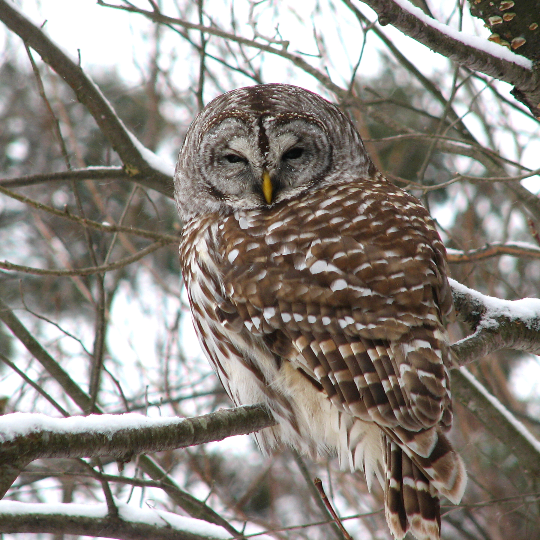 Barred Owl (Strix varia) taken in Gatineau Park, Quebec.